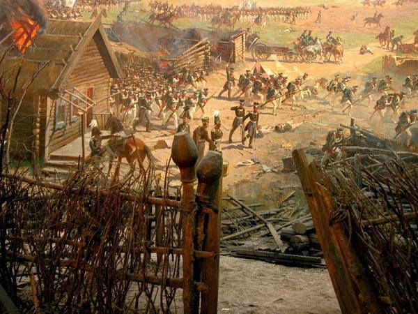 Fragment of panorama of Moscow battle in 1812 (or Battle of Borodino). Created by russian painter Franz Roubaud in 1912. Panorama is installed in Moscow Poklonnaya Hill museum. Fragment of panorama shows russian troops in Semenovskoe.